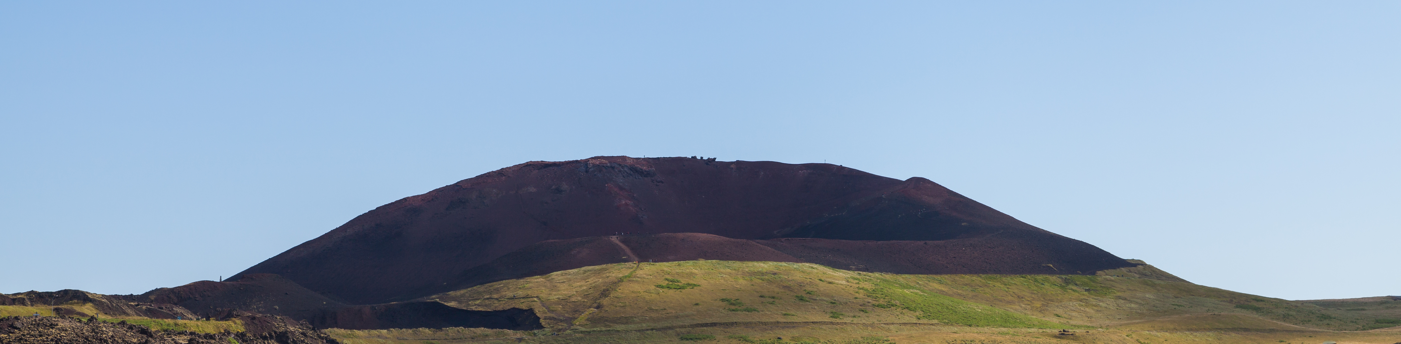 Eldfell, Heimaey, Westman Islands, Suðurland, Iceland